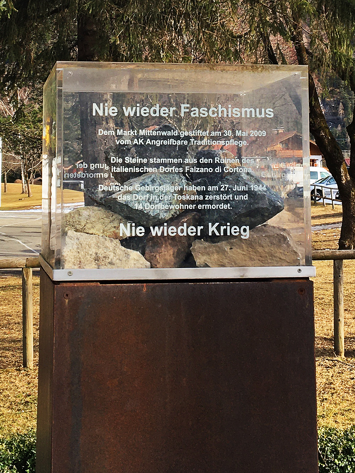 Memorial against war and fascism in Mittenwald. Stele made of concrete, steal and glass donated by the group 'AK Angreifbare Traditionspflege' on May 30, 2009. The stones inside come from the ruins of the italian village Falzano di Cortona symbolizing the 14 inhabitants massacred by German mountain infantry (Gebirgsjäger) under the command of Josef Scheungraber there on June 27, 1944.